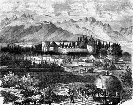 Kežmarok, newspaper´s illustration to